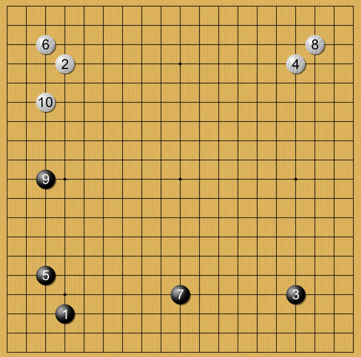 good and bad development in fuseki